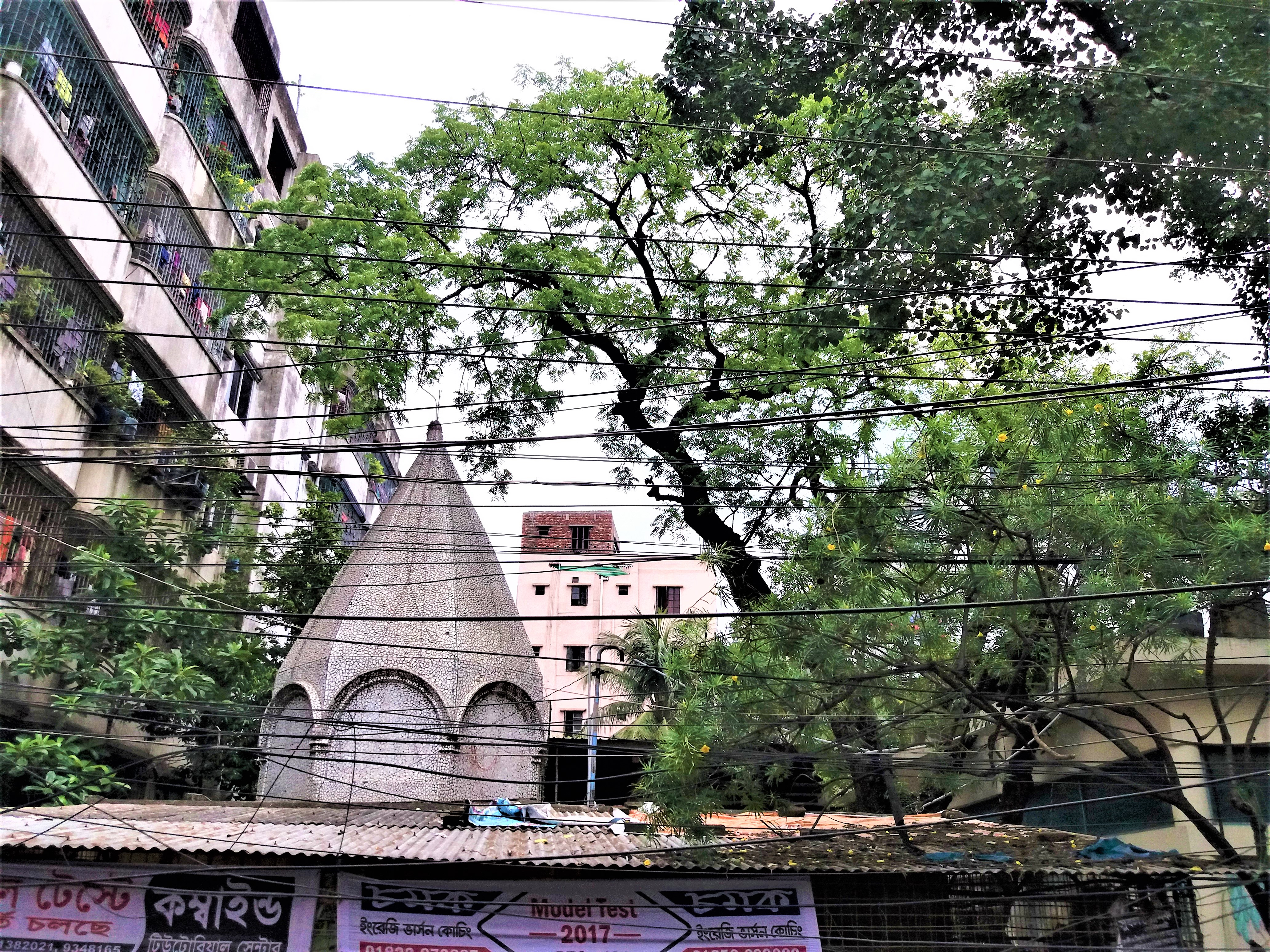 A prominent and old temple in Dhaka. It is dedicated to the goddess Kali of the Hindu power.